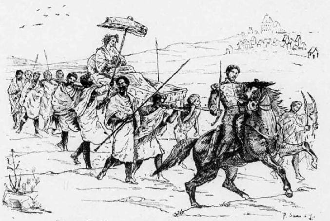 Engraving depicting Queen Ranavalona I of Madagascar traveling on her filanzana (palanquin), accompanied by her son Radama II and a party of slaves.